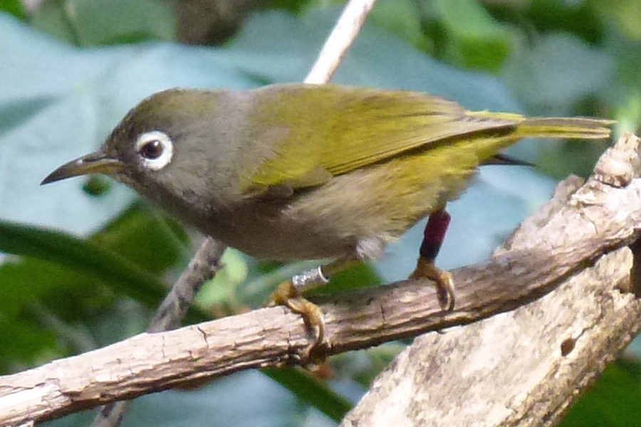 juvenile bird on branch